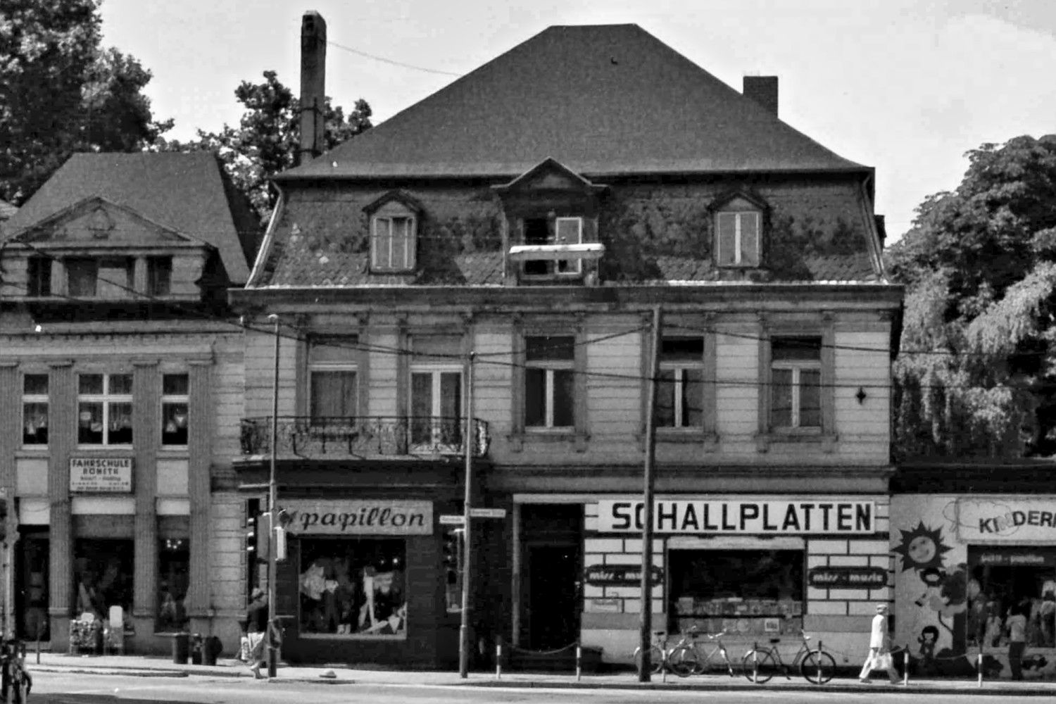 House Hagdorn, Hilden, Benrather Str. 1, in 1979